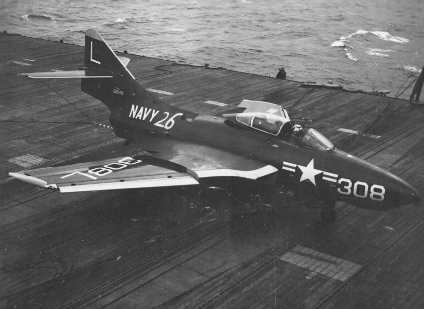 A U.S. Navy Grumman F9F-6 Cougar (BuNo 128249) from Fighter Squadron VF-73 Jesters after landing. VF-73 was assigned to Carrier Air Group 7 (CVG-7) aboard the aircraft carrier USS Hornet (CVA-12) during a deployment to the Western Pacific from 4 May to 10 December 1955. Note: In the caption, the aircraft is wrongly identified as a North American FJ-3 Fury.